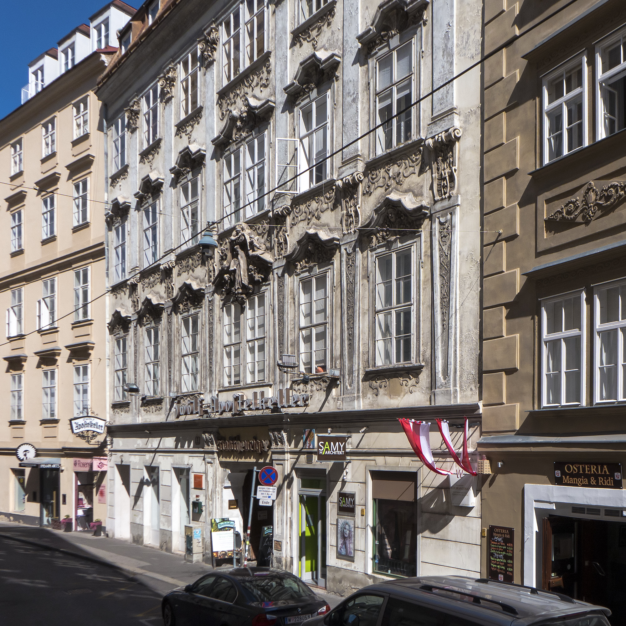 Restaurant Zwölf Apostelkeller in Vienna 1